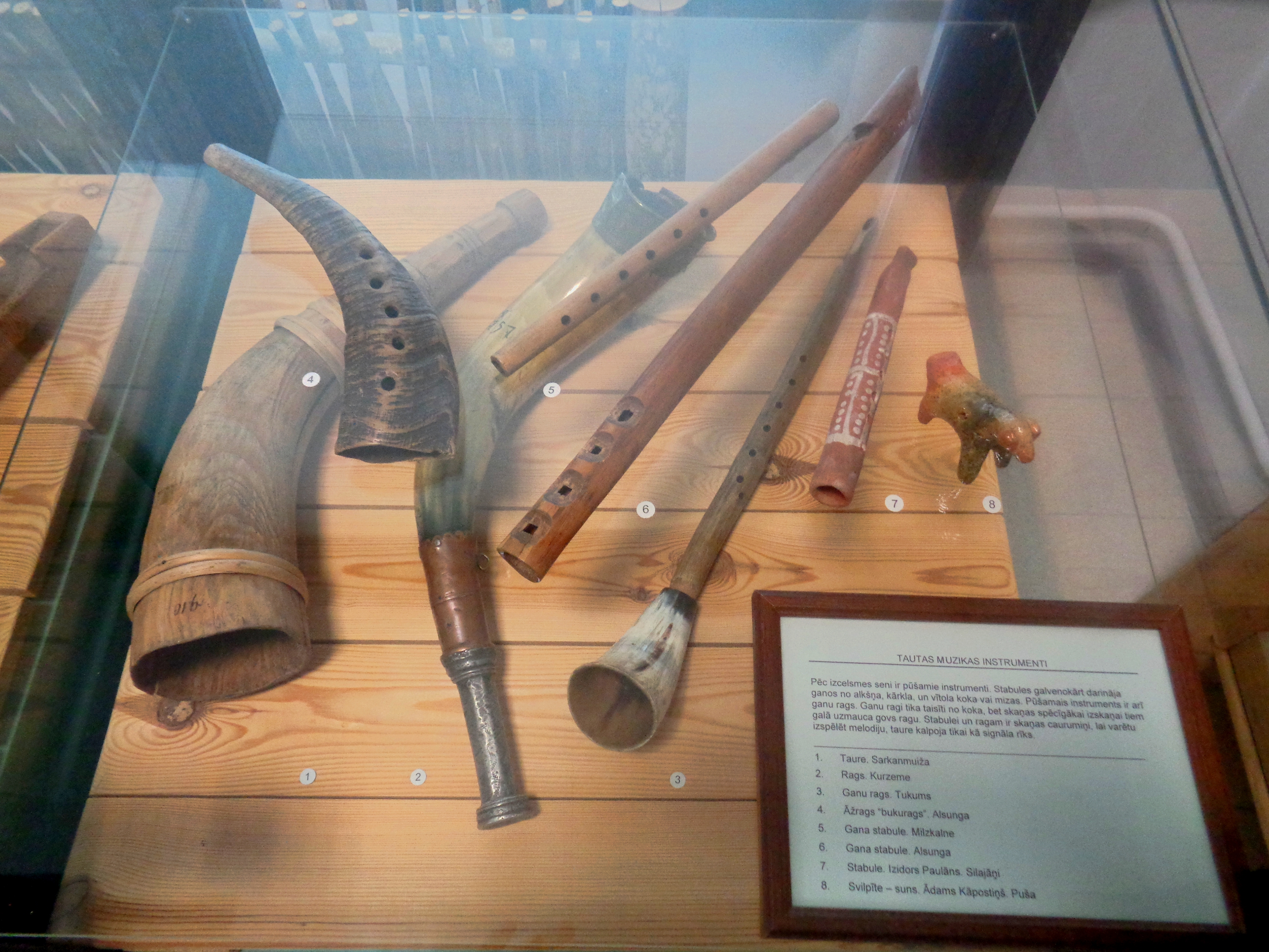 Various Latvian traditional wind instruments — trumpet, horn, shepherd's horn, bugle, shepherd's pipe, pipe and whistle, National History Museum of Latvia.